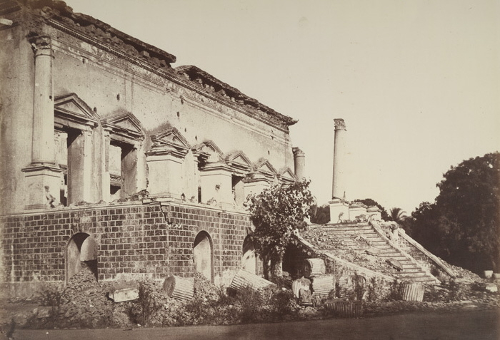 Photograph entitled, "The Bank of Delhi," taken in 1858 by Major Robert Christopher Tytler and his wife, Harriet. The bank had been damaged by mortar and gunfire during the rebellion of 1857.